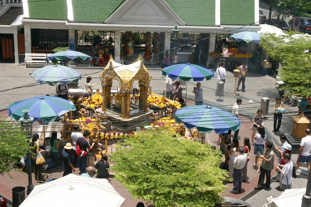 Erawan shrine in Bangkok, Thailand; view from entrance to the SkyTrain station. Originally uploaded to German wikipedia.